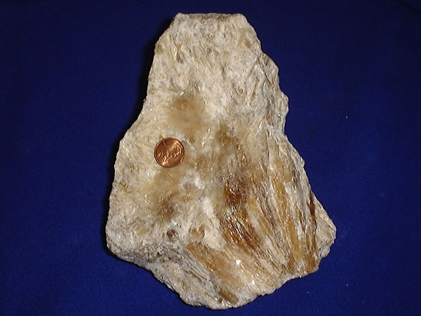 Image on trona, a naturally occurring mineral that is primarily hydrated sodium bicarbonate carbonate (Na3HCO3CO3·2H2O). Image from: Photographer unknown.